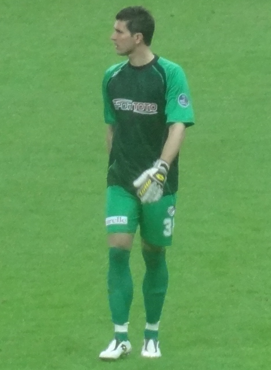 Fornezzi playing at GS-Ordu match